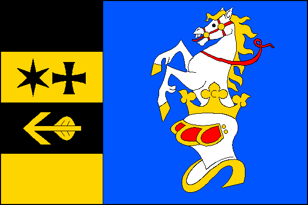 Municipal flag of Smolotely , District Příbram, Czech Republic